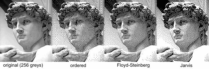 Comparison of different dithering algorithms (example: The statue of David by Michelangelo)